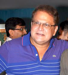 Mahesh Kothare at Success bash of 'Balak Palak'